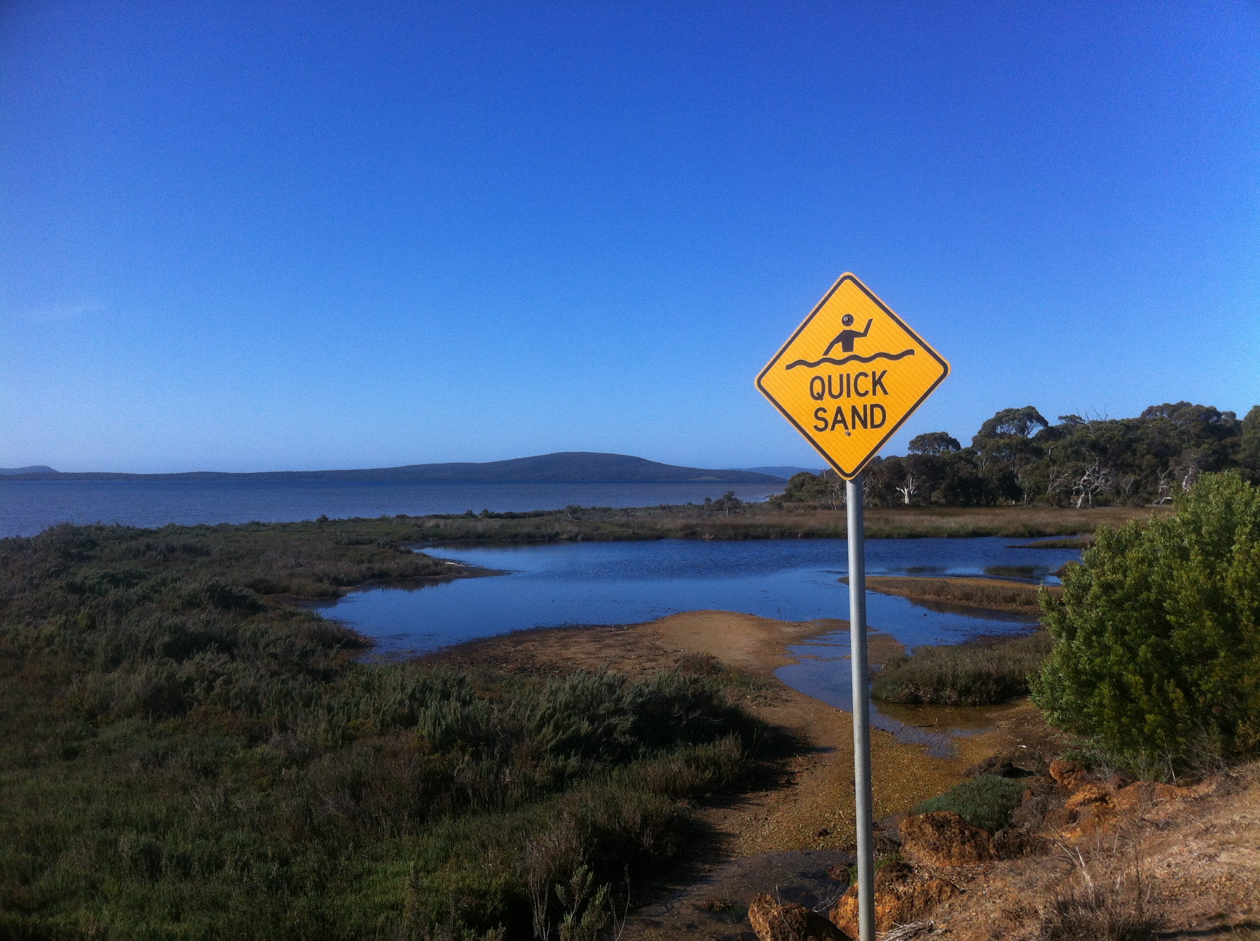 Quicksand warning sign near lower king bridge Albany WA